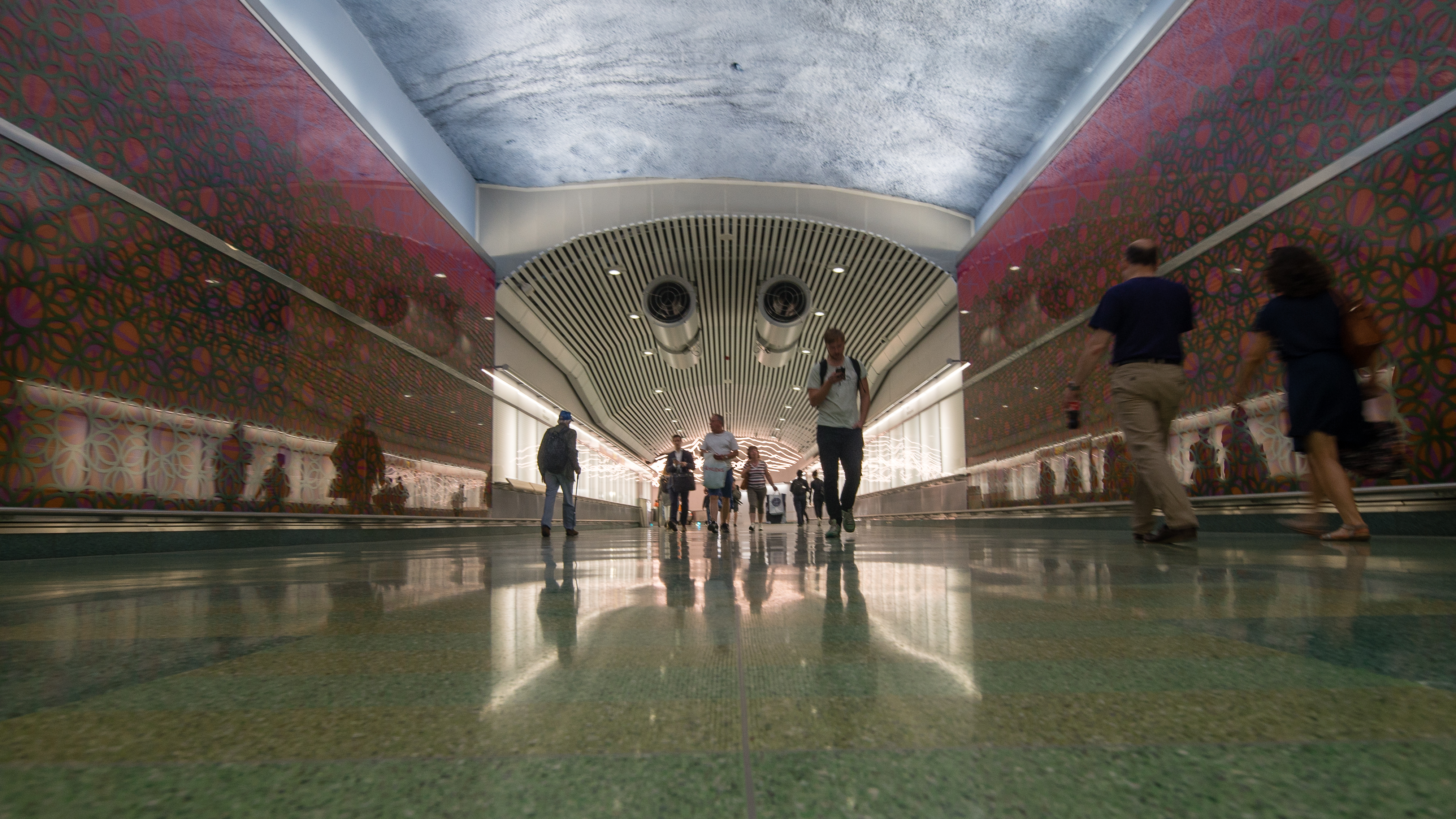 Odenplans pendelstågsstation (Odenplan commuter train station).